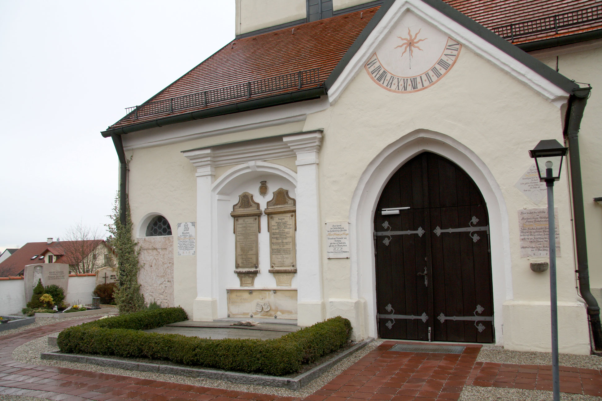 Cemetery of Notzing, Tomb of the Washingtons